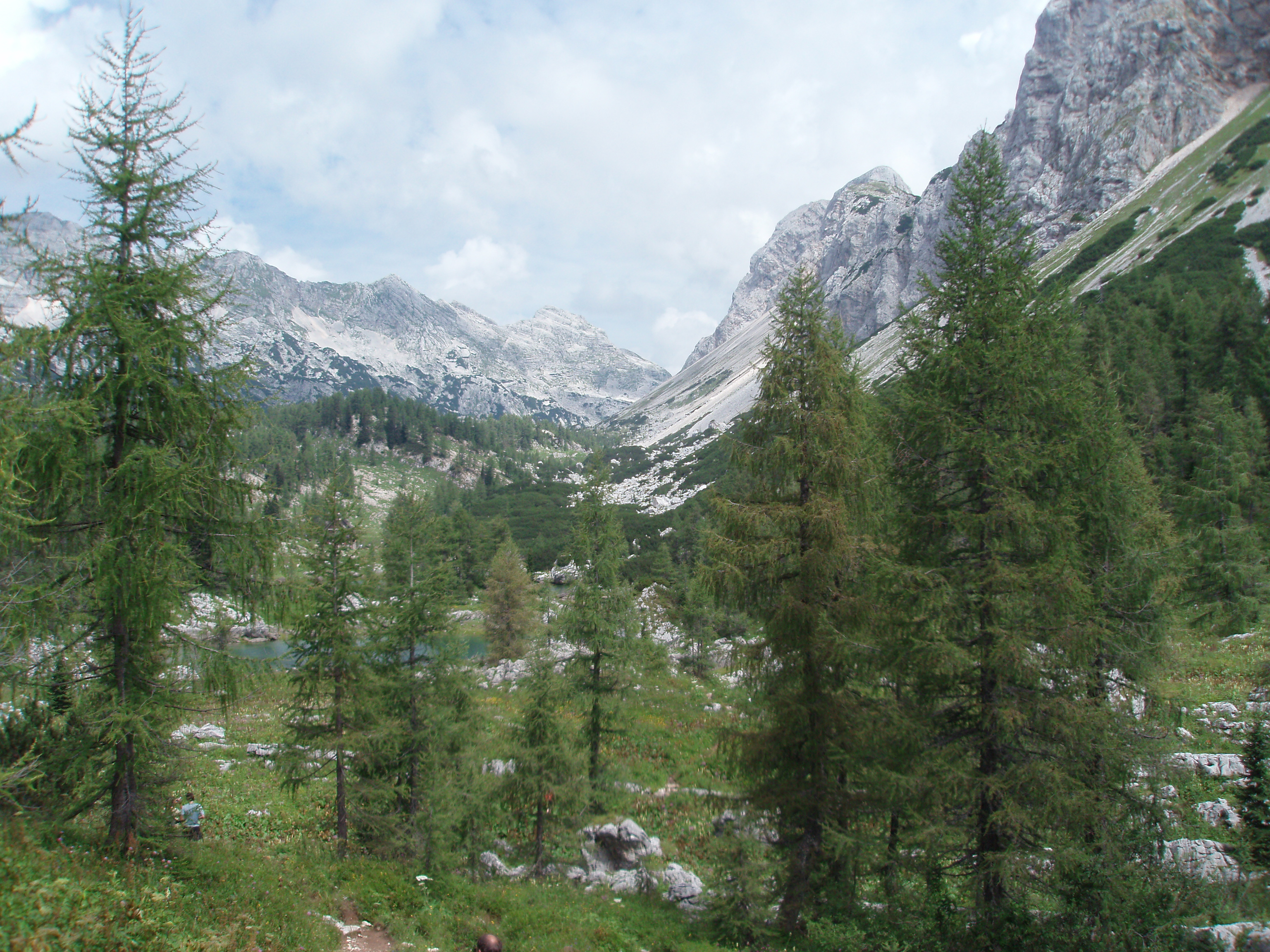 Triglav National Park, Slovenia